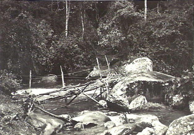 Templeton's Crossing on Eora Creek in Papua New Guinea in 1944